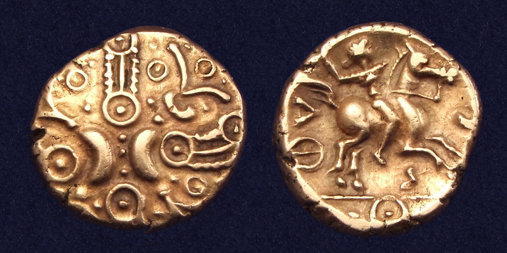 Catuvellauni, Tasciovanus, "Hidden Faces" gold stater. Obverse: stylized crescents and wreaths with hidden faces. Reverse: Celtic warrior on horse right, carrying carnyx